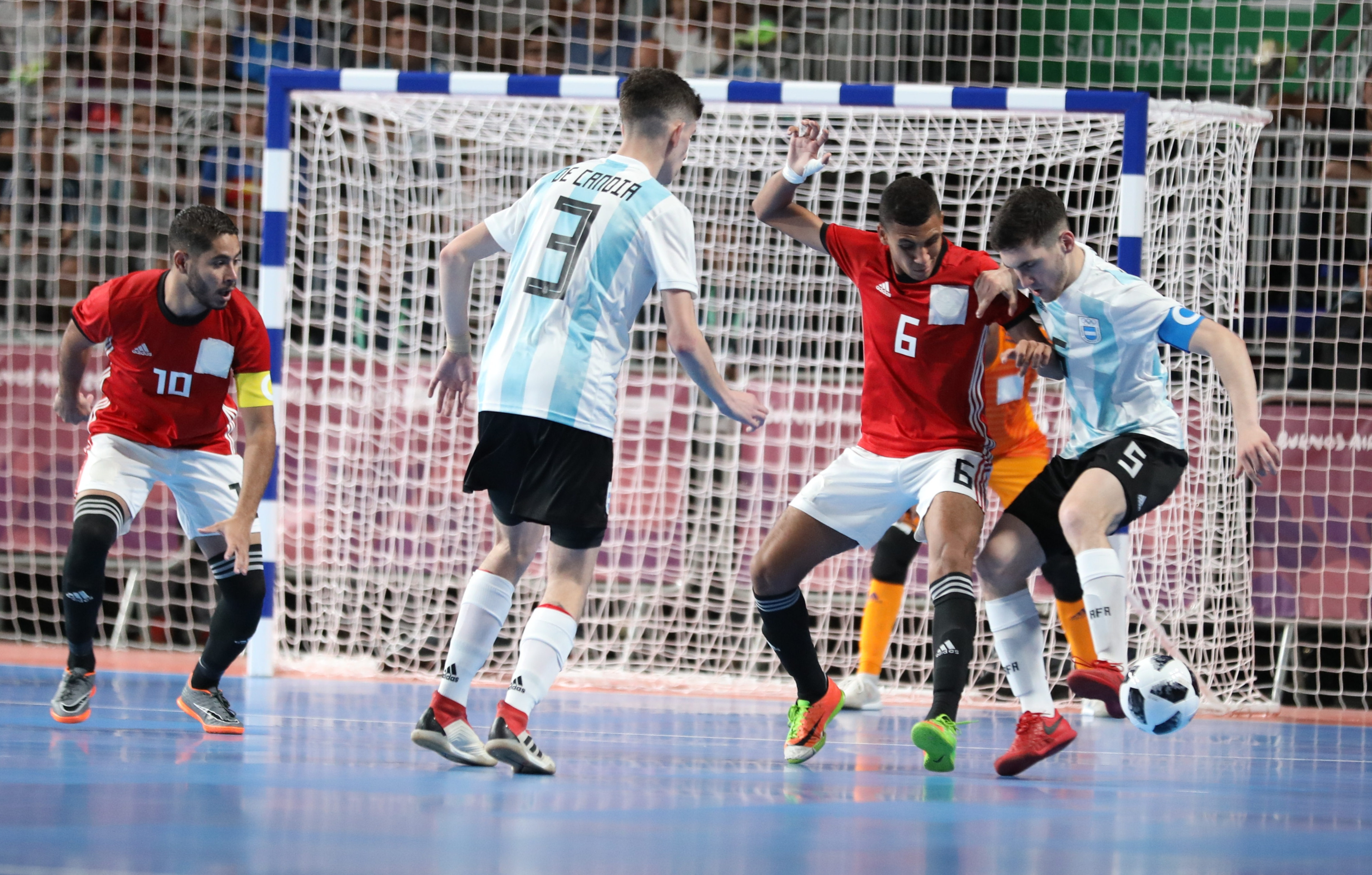 Futsal, Boys First Round: Argentina vs. Egypt (2:2)